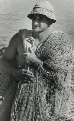 Mendel Nun, Israeli archaeologist